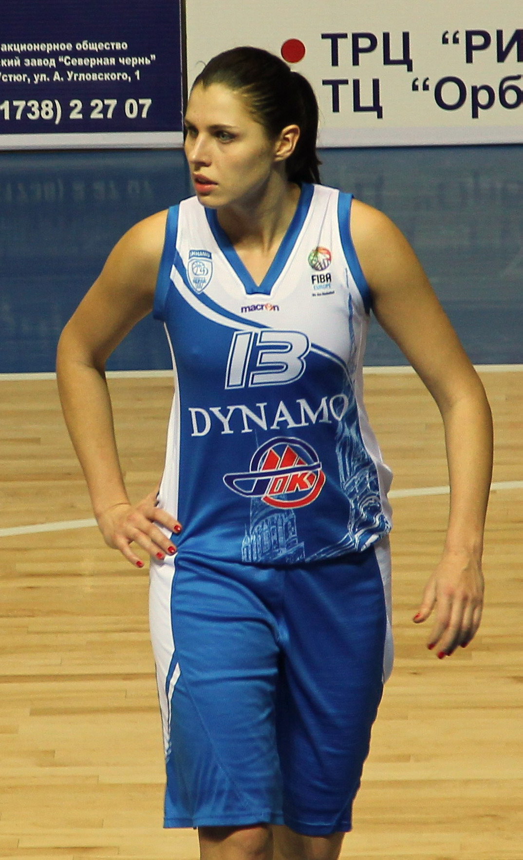 Russia, Vologda, Anna Petrakova in game «Vologda-Chevakata» vs «Dinamo» (Kursk)